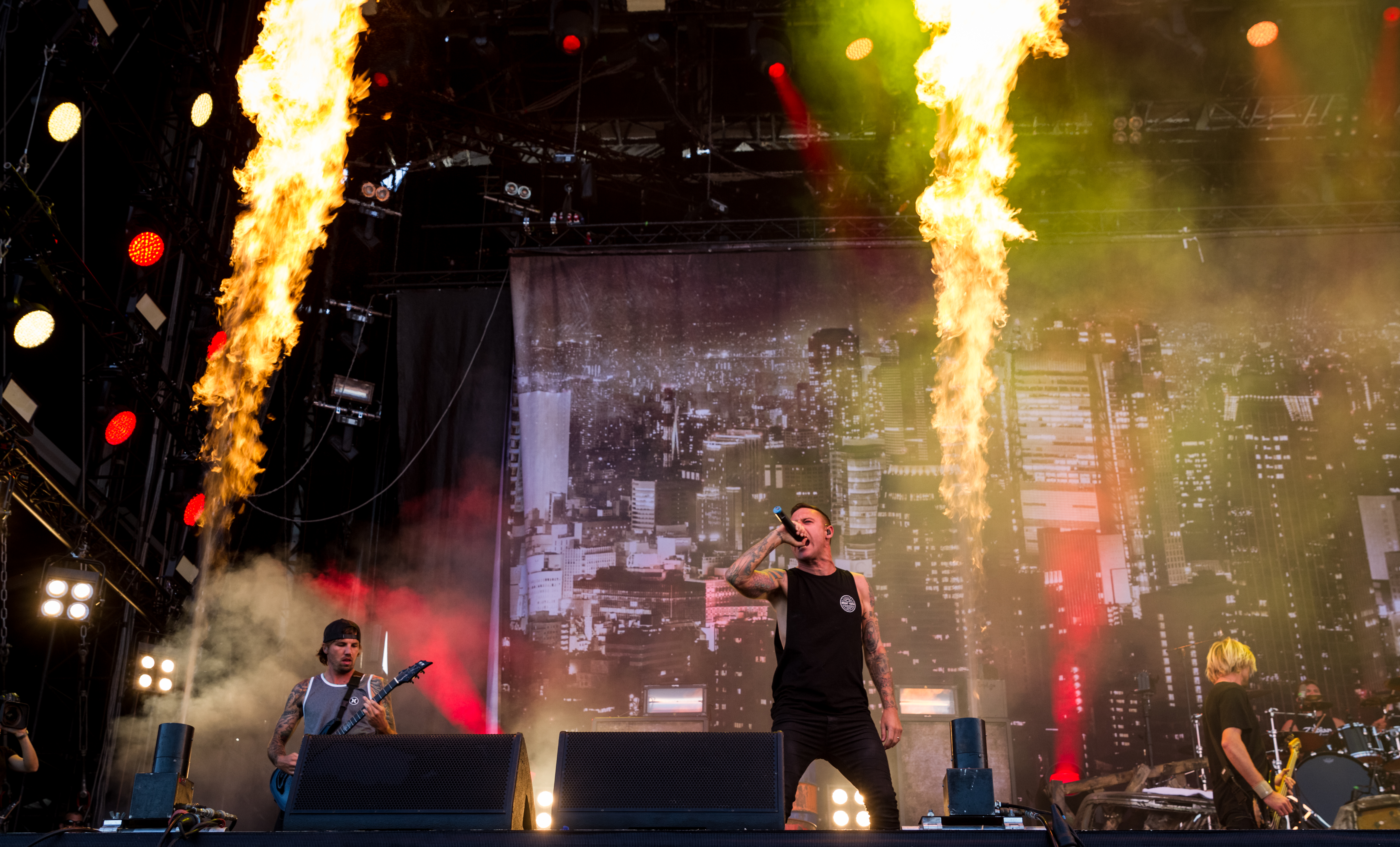 Parkway Drive - Rock am Ring 2015